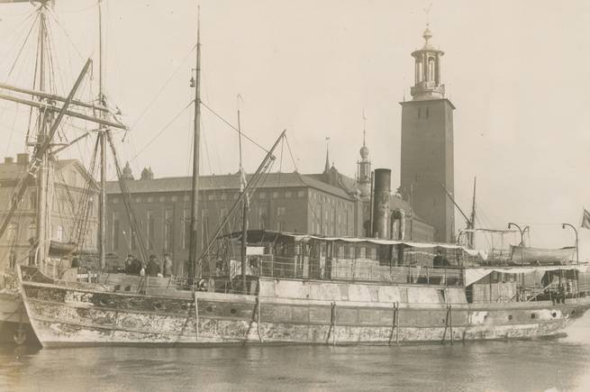 The S/S Per Brahe in Stockholm after the salvage in 1922. To finance the salvage operation of the ship, it was sent on a macabre 'tour' throughout Sweden.